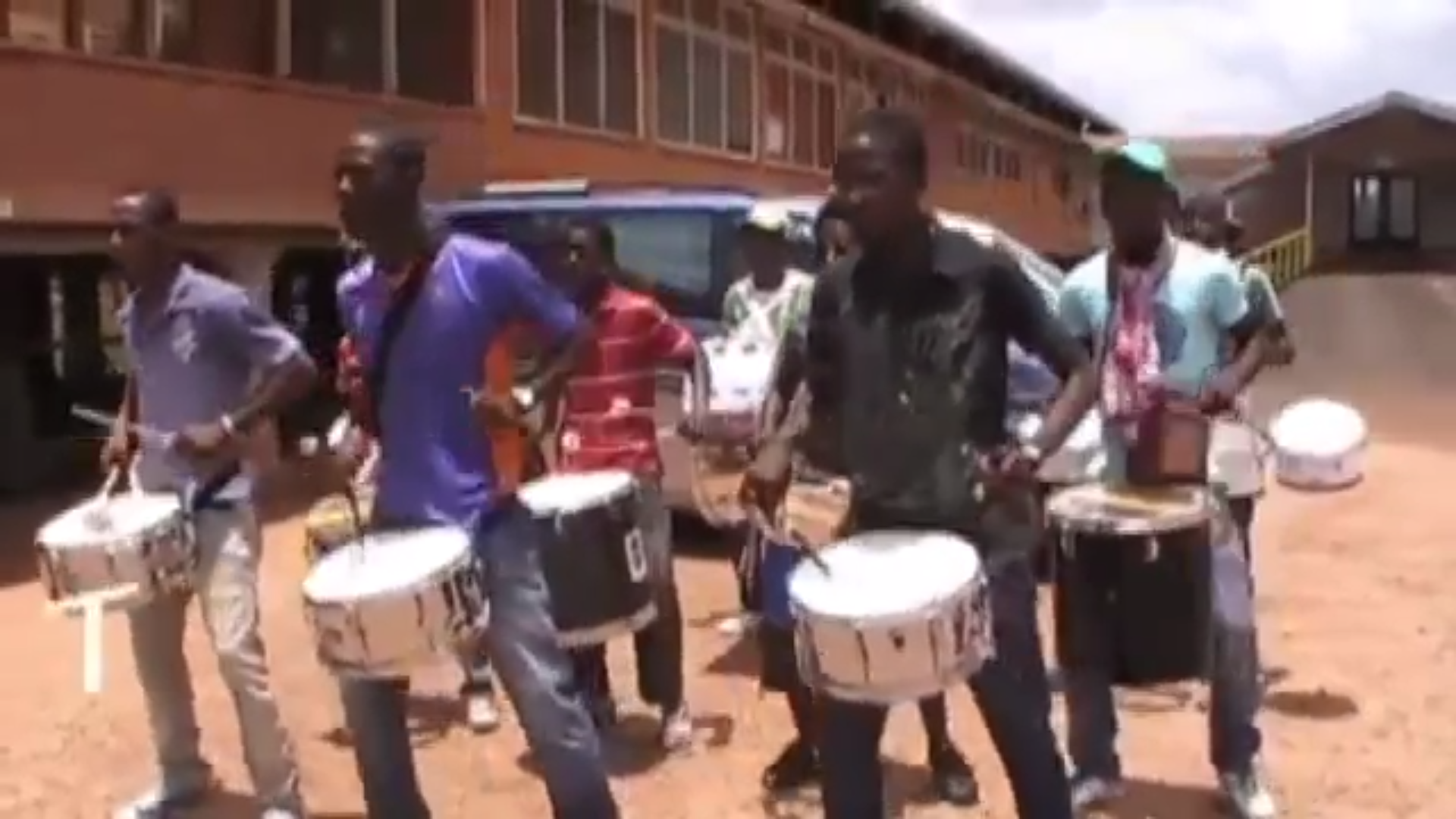 Moengo Festival of Music, 2016